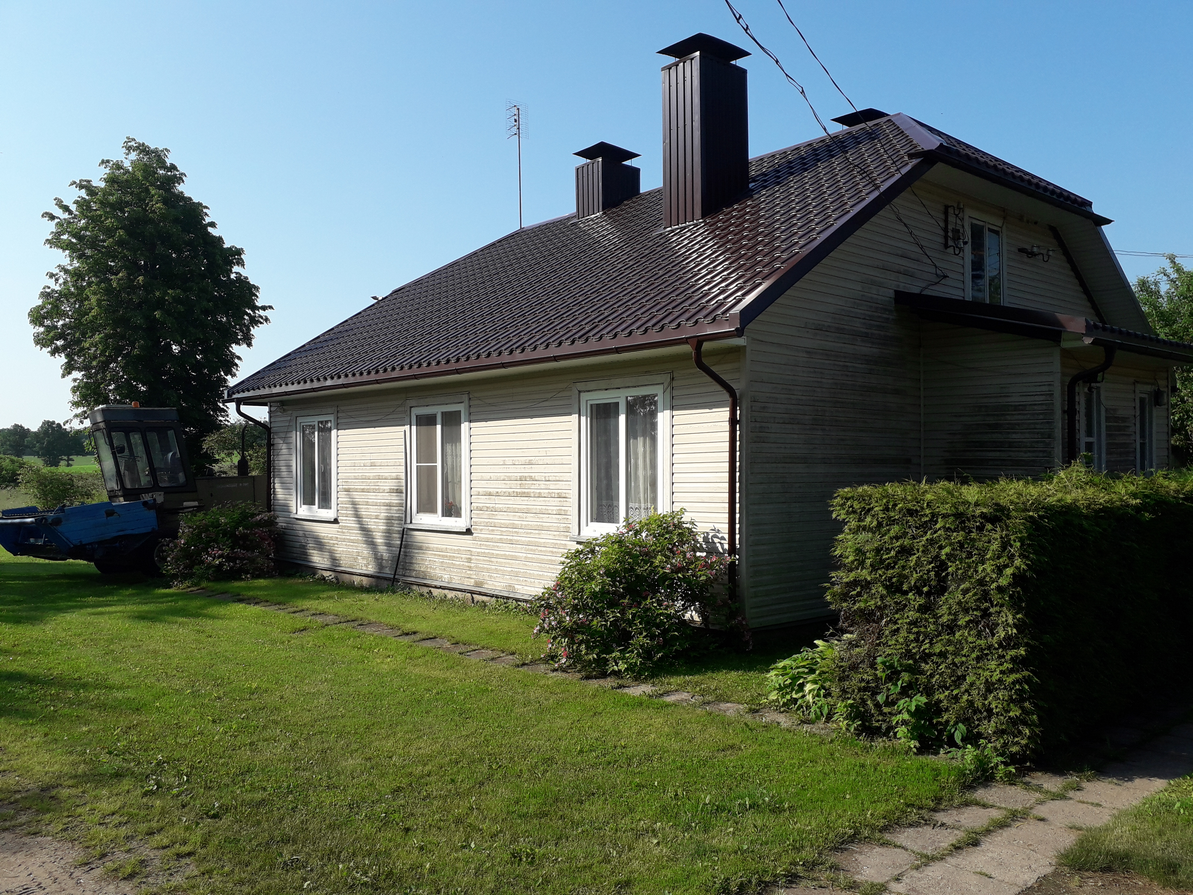 Former Suvainiškis station building of Skapiškis-Suvainiškis narrow gauge railway, Taručiai, Rokiškis district, Lithuania